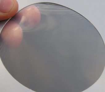 Sympatex membrane